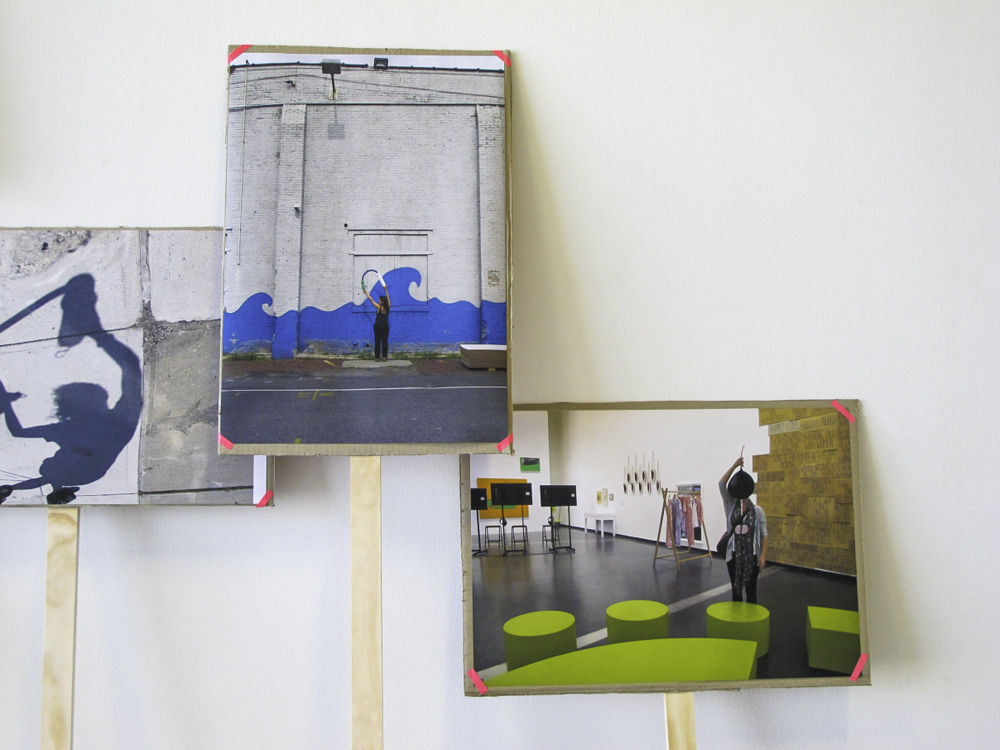 Detail of Installation